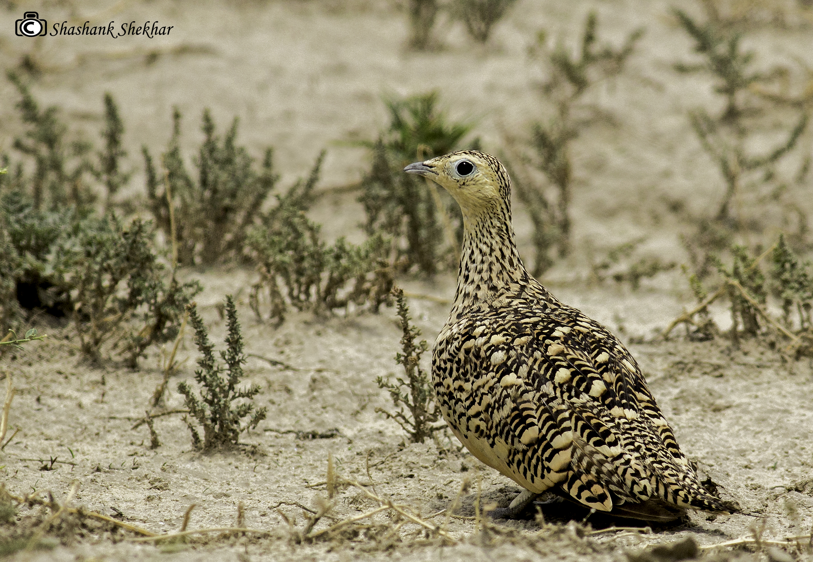 The chestnut-bellied sandgrouse Female (Pterocles exustus).